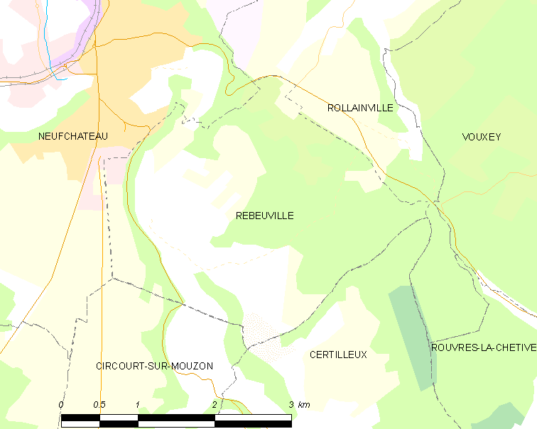 Map of French municipality Rebeuville